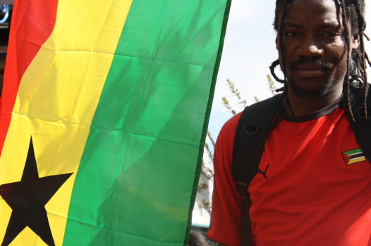 Mozambican trader Michael Mashava is behind the Black Stars, who advanced to the quarterfinals of the 2010 FIFA World Cup.